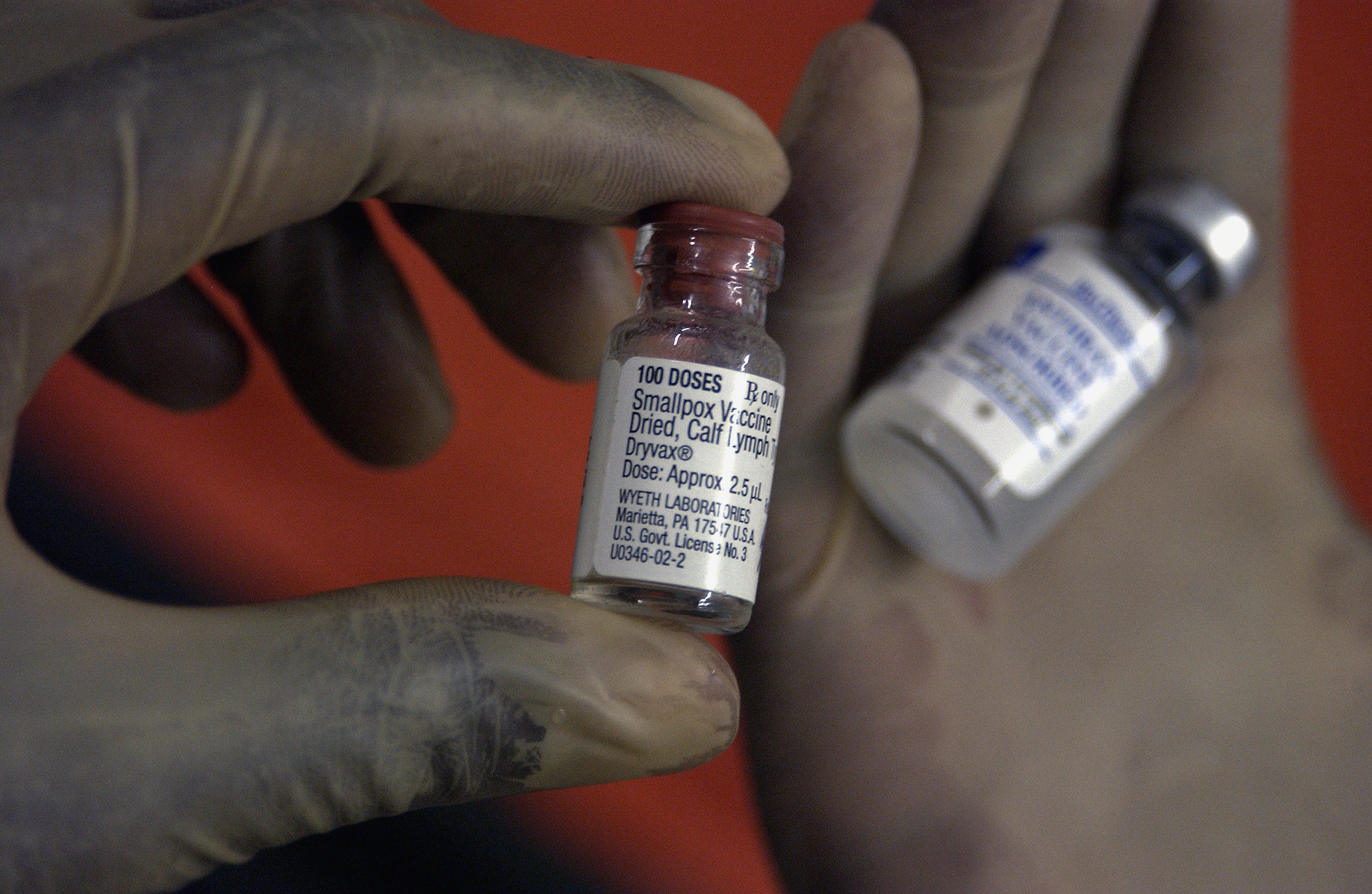 BAGHDAD INTERNATIONAL AIRPORT, Iraq -- Vials of smallpox and anthrax serum are used frequently by members of the 447th Expeditionary Medical Squadron here. Medical technicians inoculate an average of 80 patients per week for smallpox and anthrax. (U.S. Air Force photo by Master Sgt. Keith Reed)